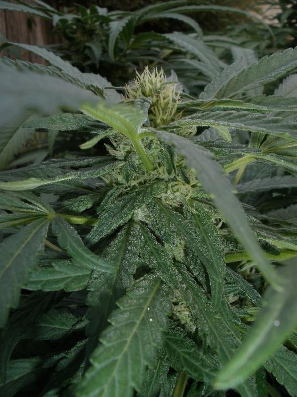 Purple Kush flowers a little over half-way threw flowering.